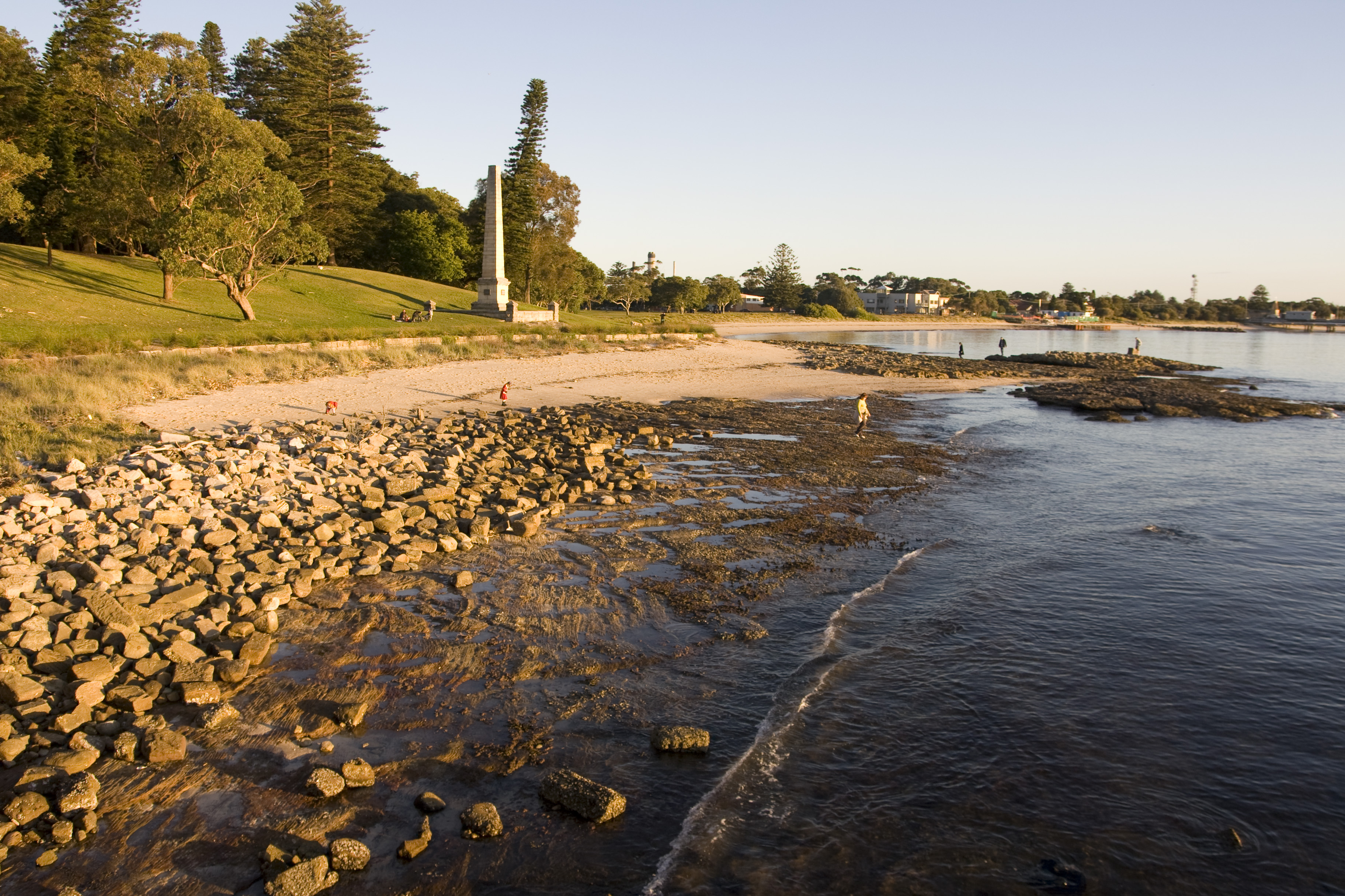 Captain Cooks Landing Place Park